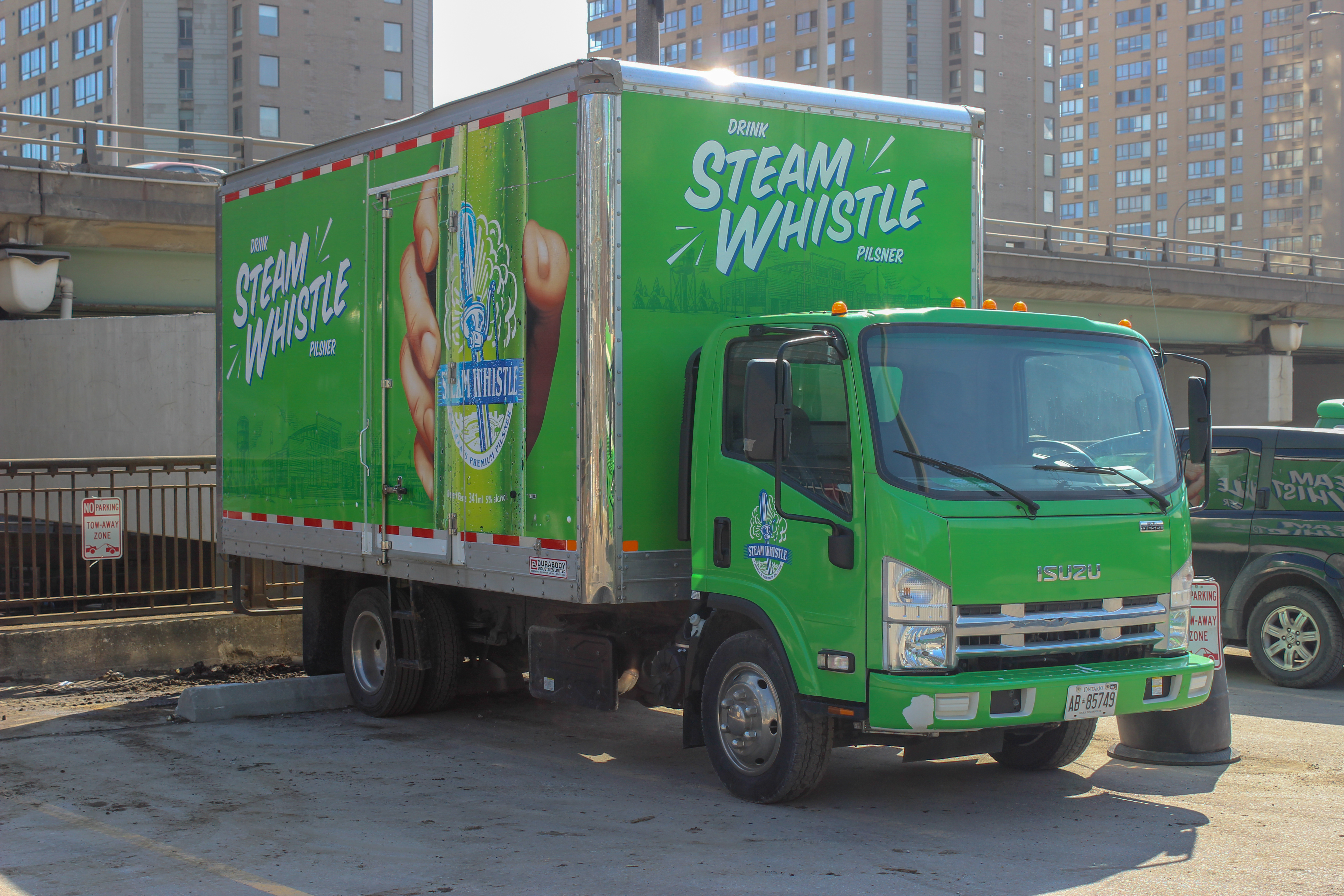 Steam Whistle Brewing